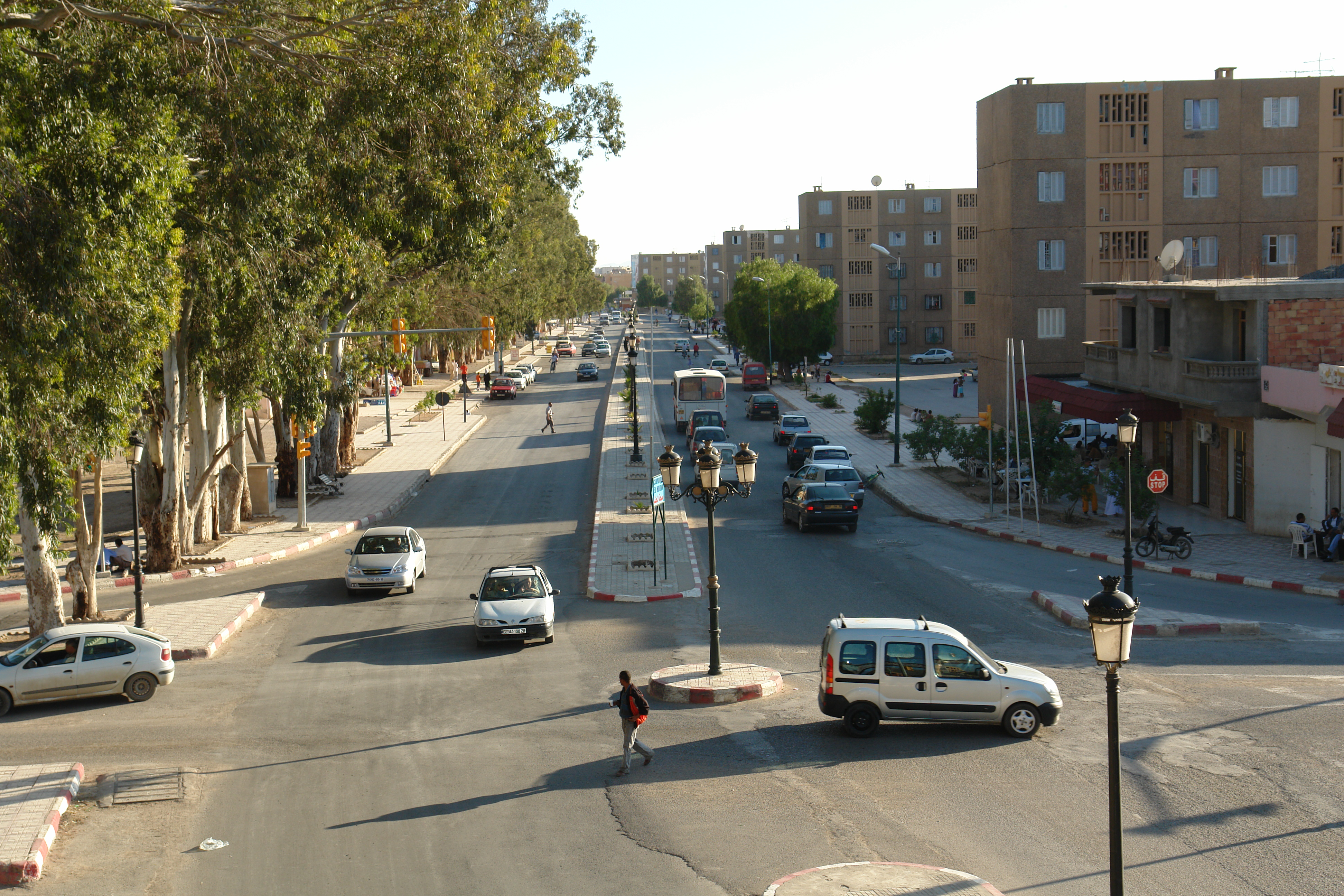 M'sila, cité des eucalyptus, at around 4 P.M.